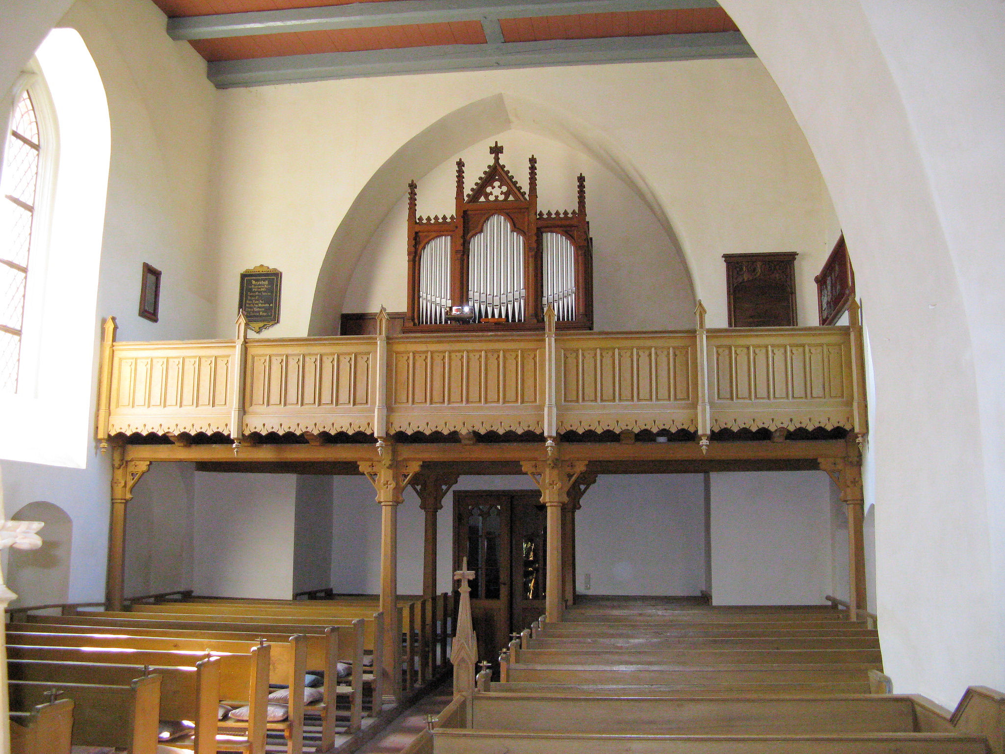 Pipe organ in the church in Hohen Mistorf, disctrict Güstrow, Mecklenburg-Vorpommern, Germany